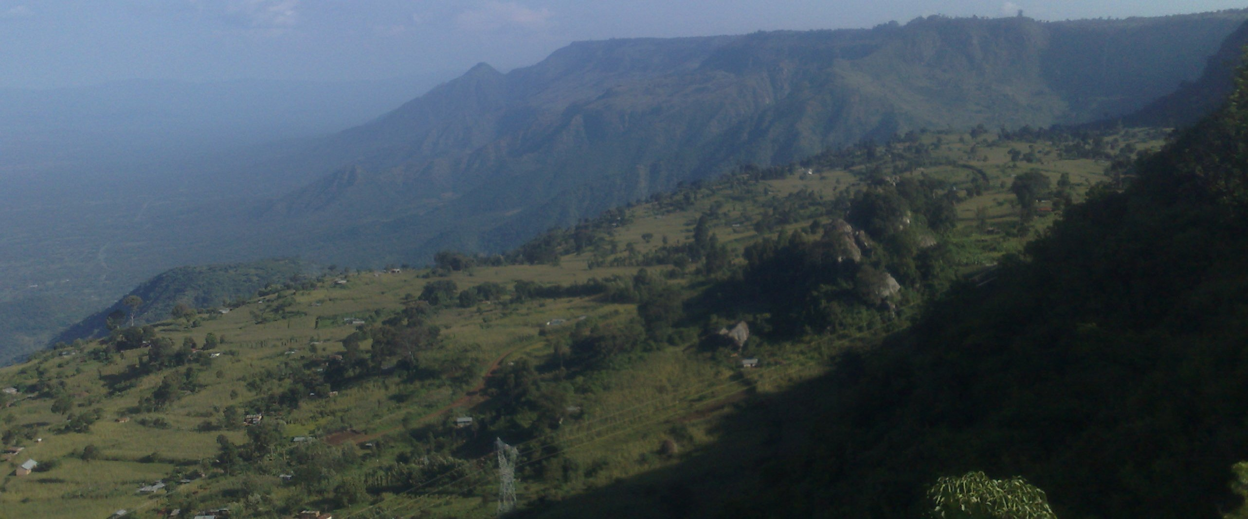 escapment